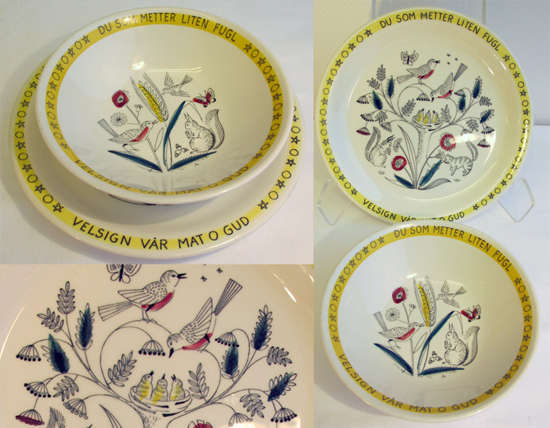 Children's breakfast plate and porrige bowl designed by Anne Lofthus for Stavanger Flint, Norway